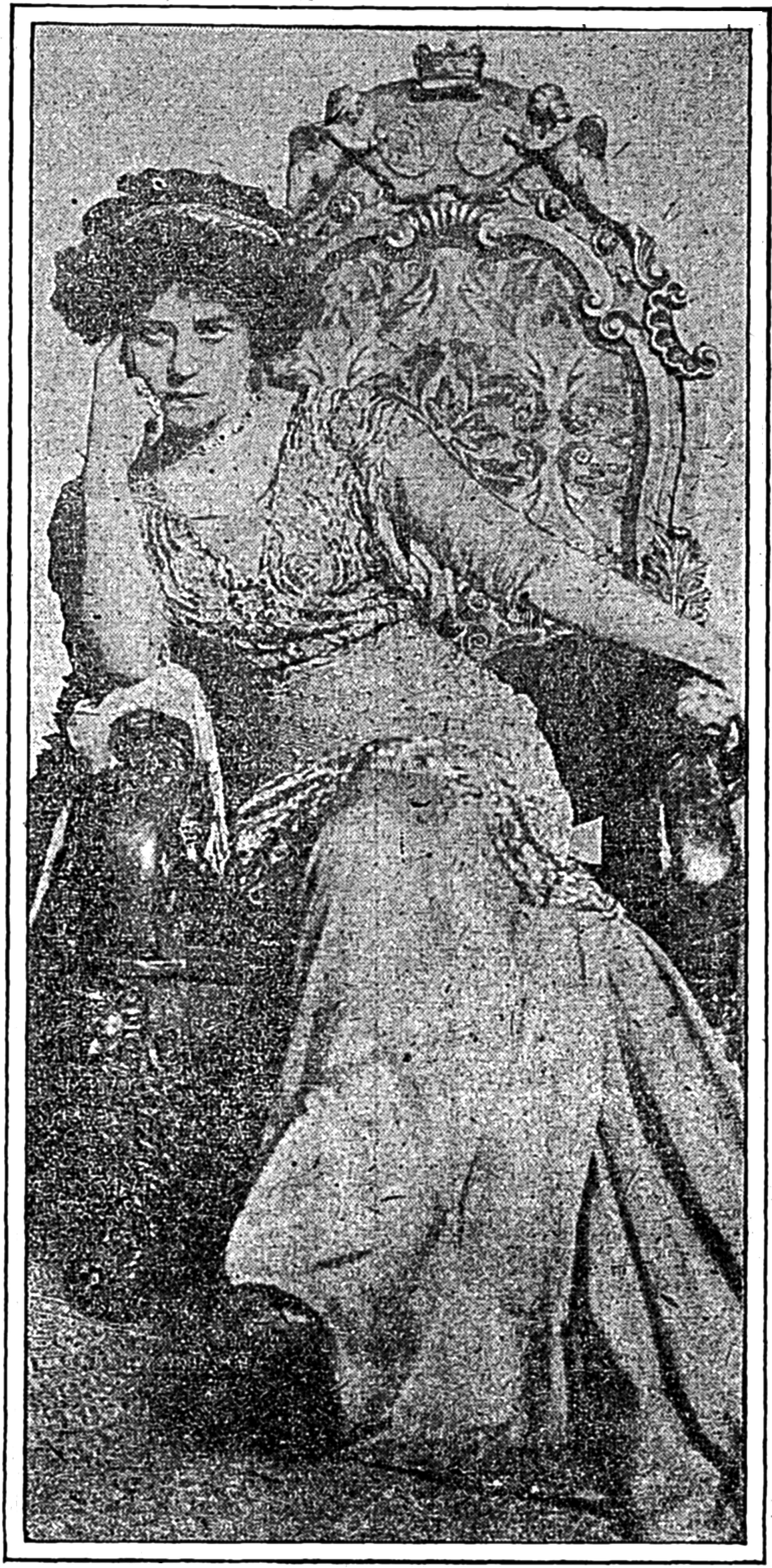 Picture of actress Marietta Olly (1873-1946)